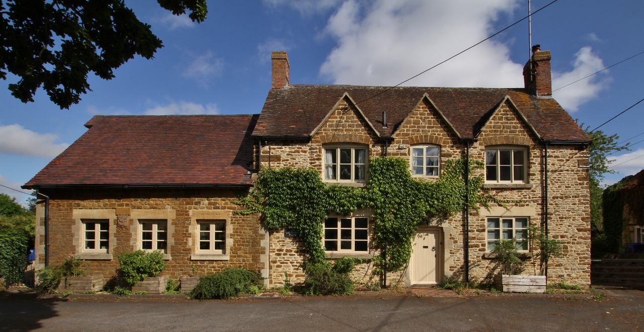 The former Mary New School, Market Square, Lower Heyford, Oxfordshire, seen from the south. Founded as a National School in 1867. The extension on the left was added in 1894.